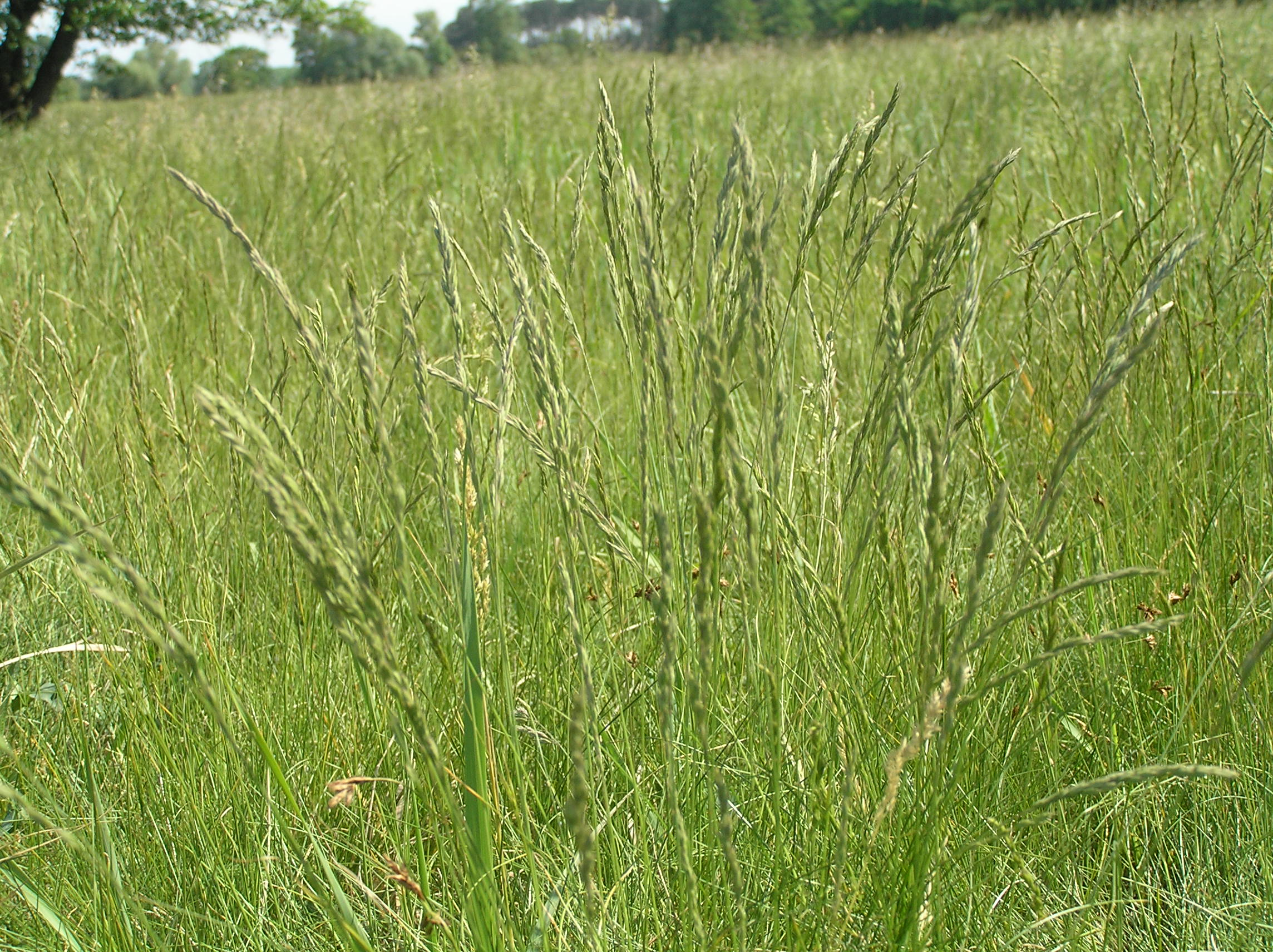 Festuca rupicola, Lánské louky near Lanžhot, Southern Moravia, Czech Republic